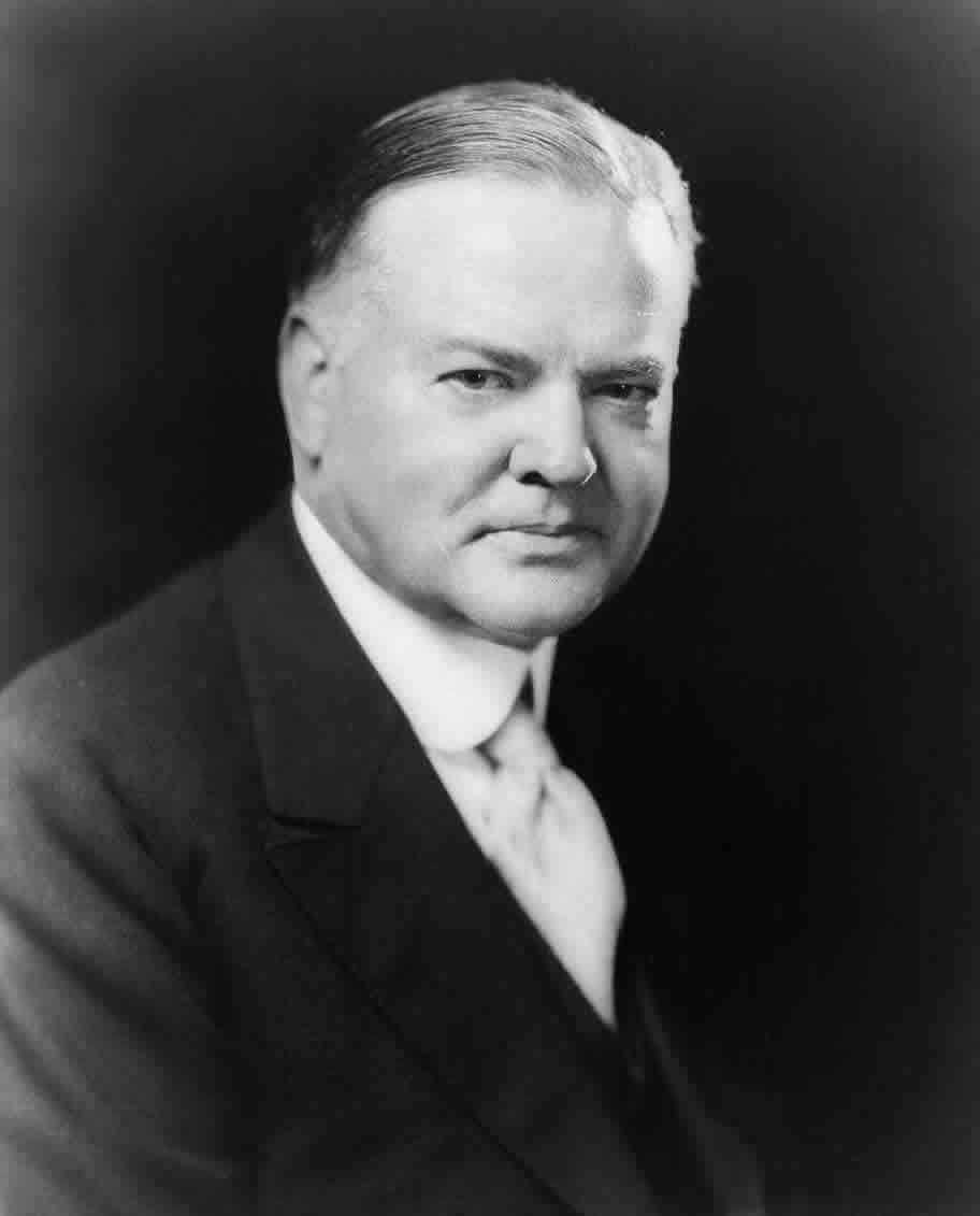 Herbert Hoover, head-and-shoulders portrait, facing slightly right.